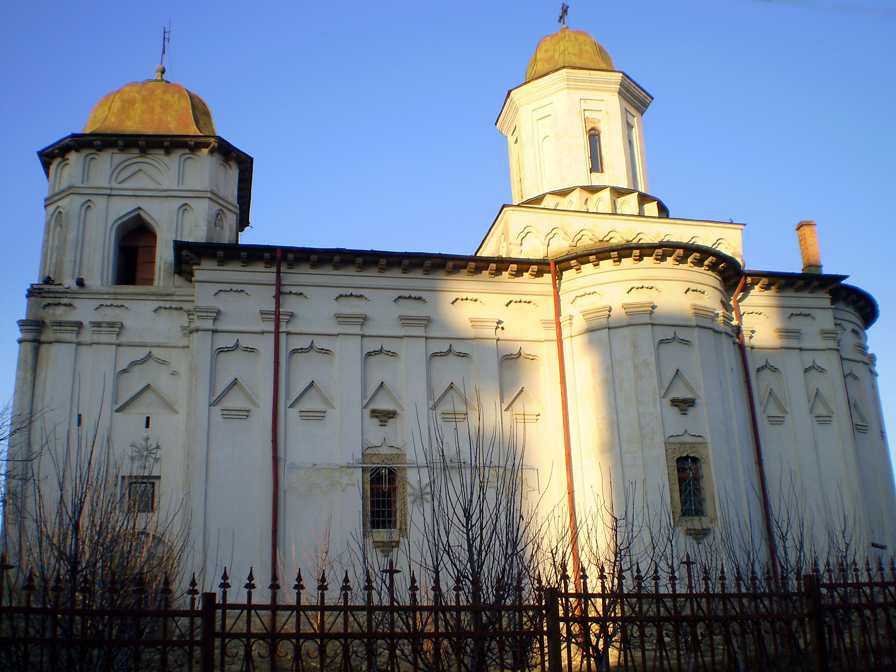 Iaşi , Saint Theodore Church , 1761, Iaşi , Romania